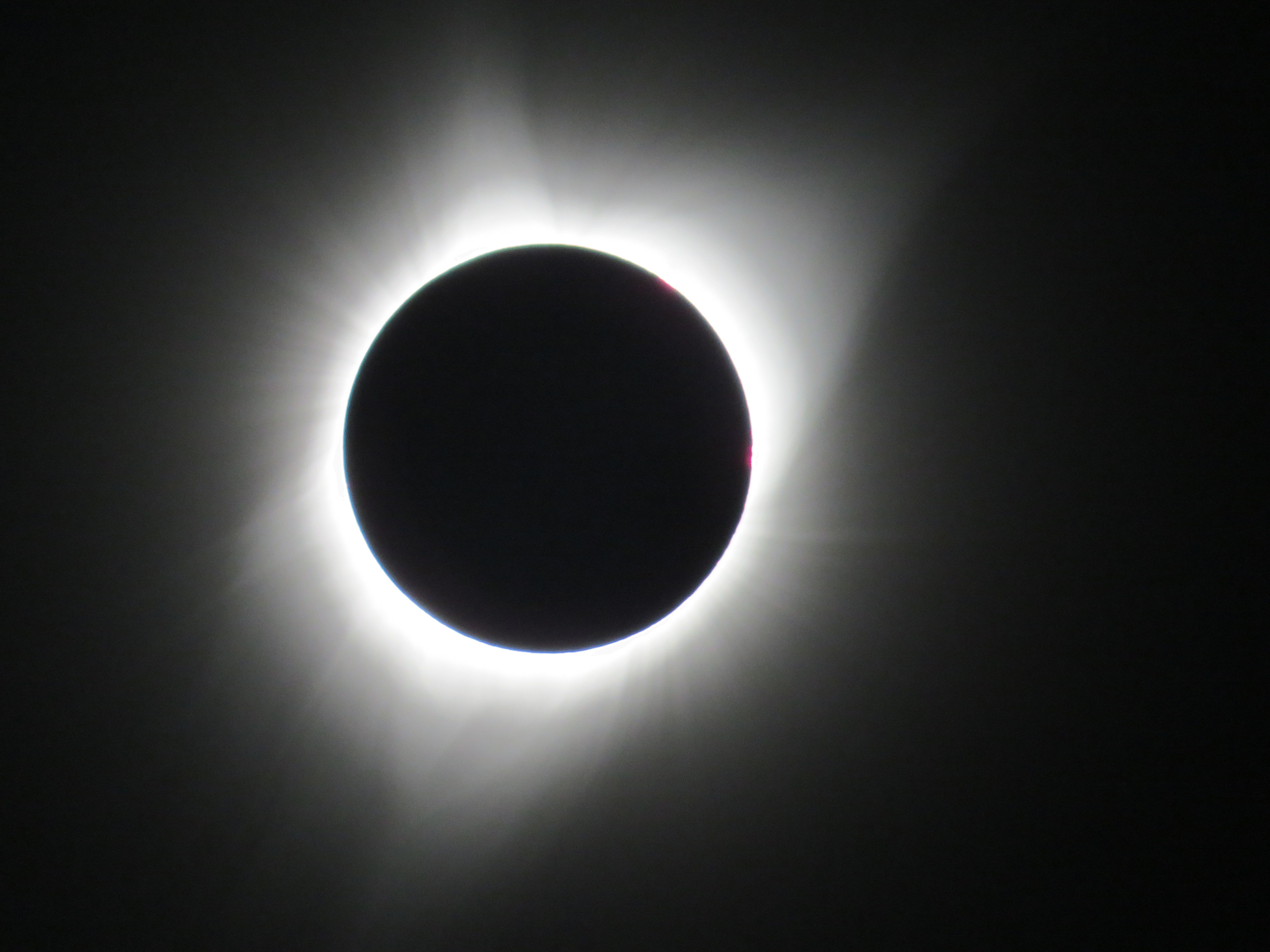 The Moon blocking the Sun during the total total eclipse of August 21, 2017.